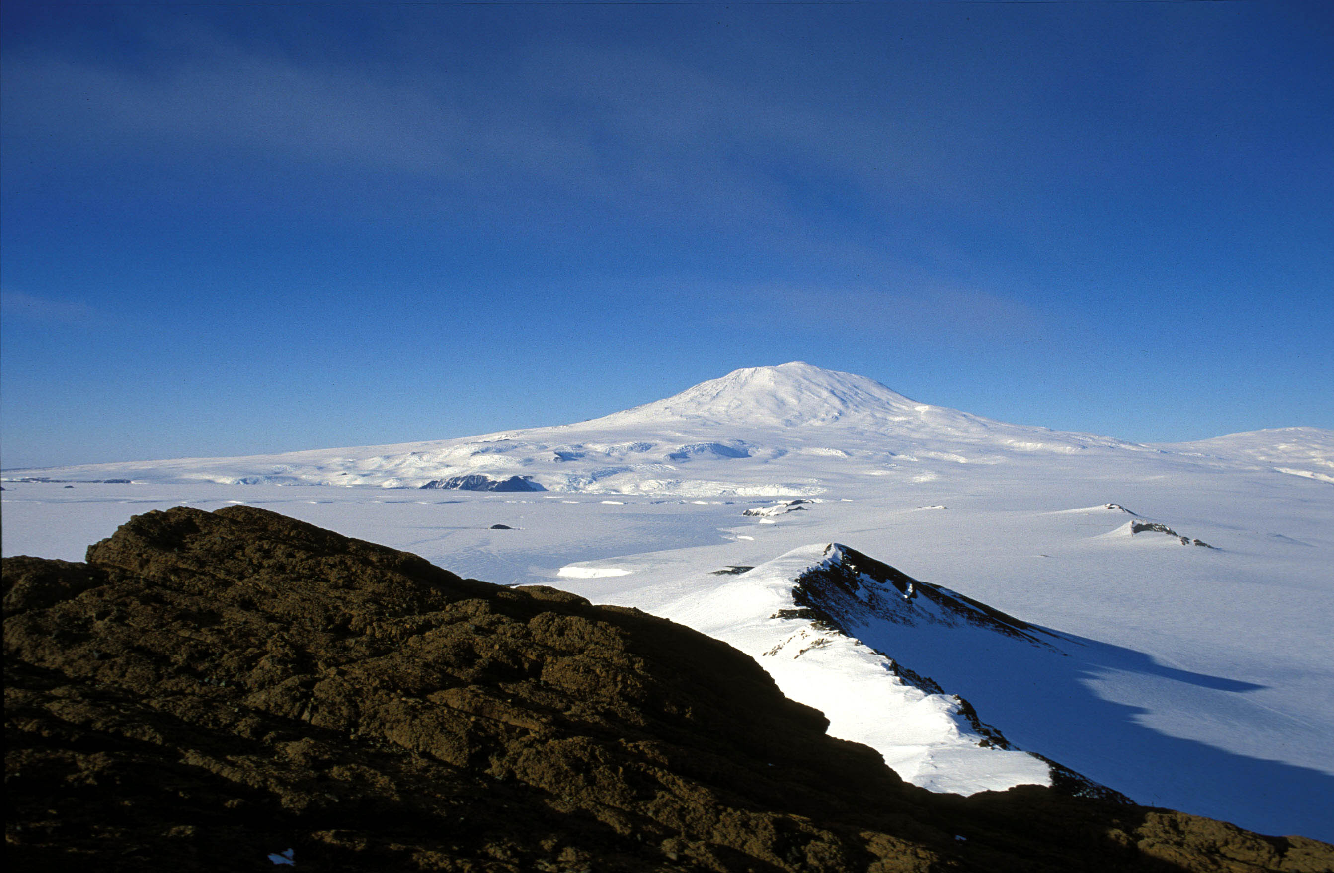 Panorama of Ross Island seen from Castle Rock, near McMurdo Station on Hut Point Peninsula with Mount Erebus (center), Mount Terror (right) and Erebus Ice Tongue in the frozen McMurdo Sound (left), Antarctica.